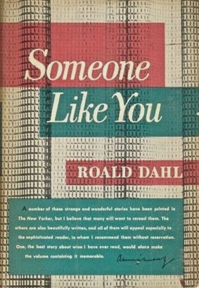 Roald Dahl: Someone Like You, New York 1953 - book cover of the first edition. Someone Like You was Dahl's second collection of short stories.